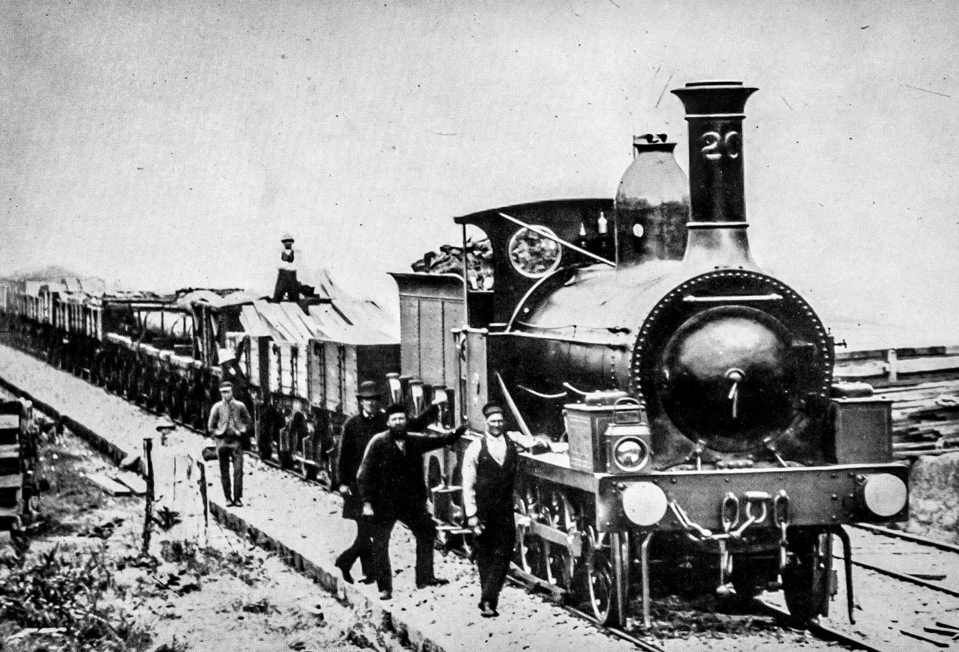 NSWGR Locomotive Class E.17